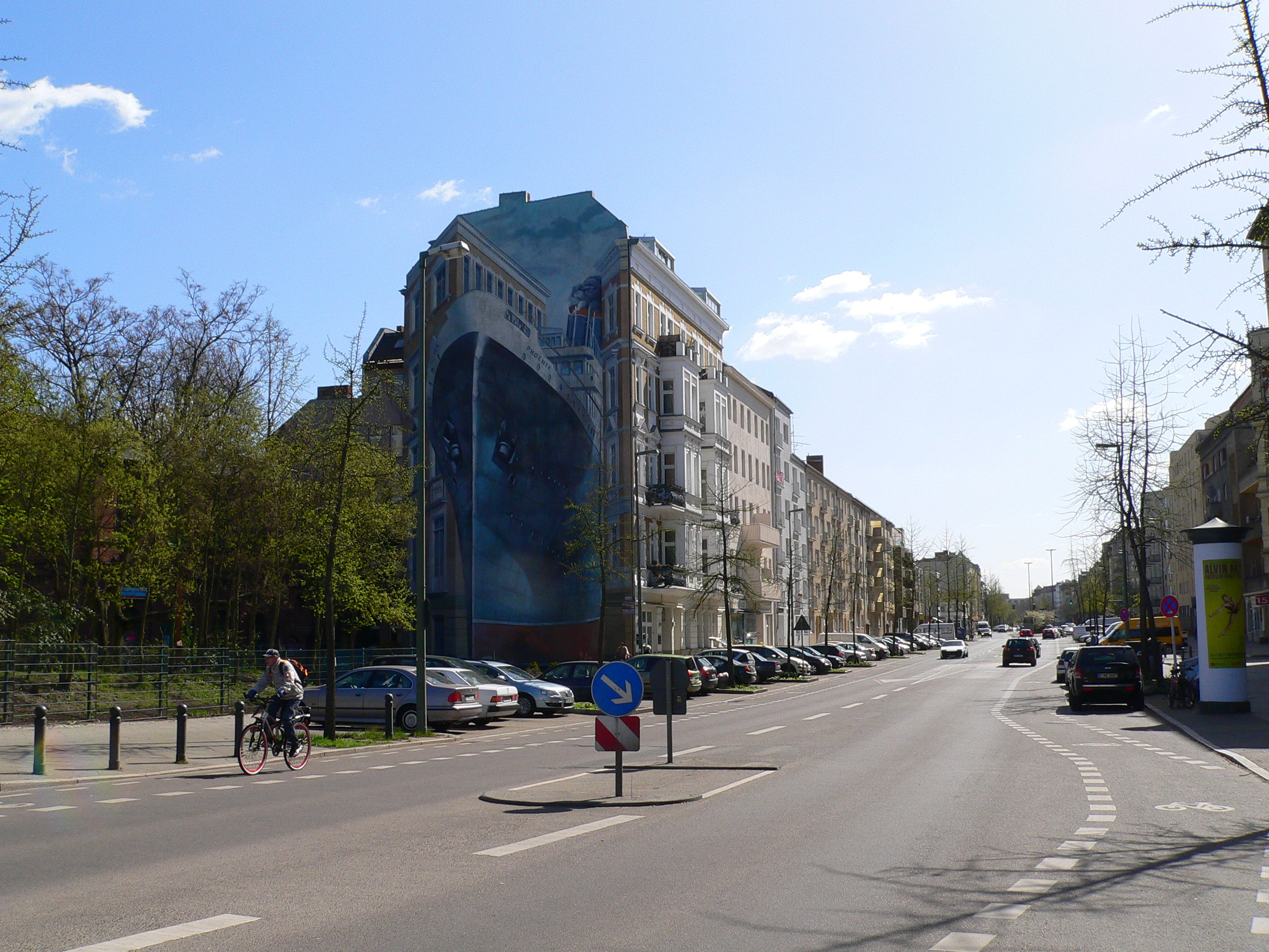 Berlin-Charlottenburg Wintersteinstraße with mural "Phoenix" by Get Neuhaus